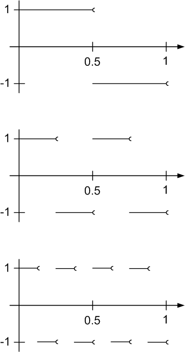 First 3 Rademacher functions